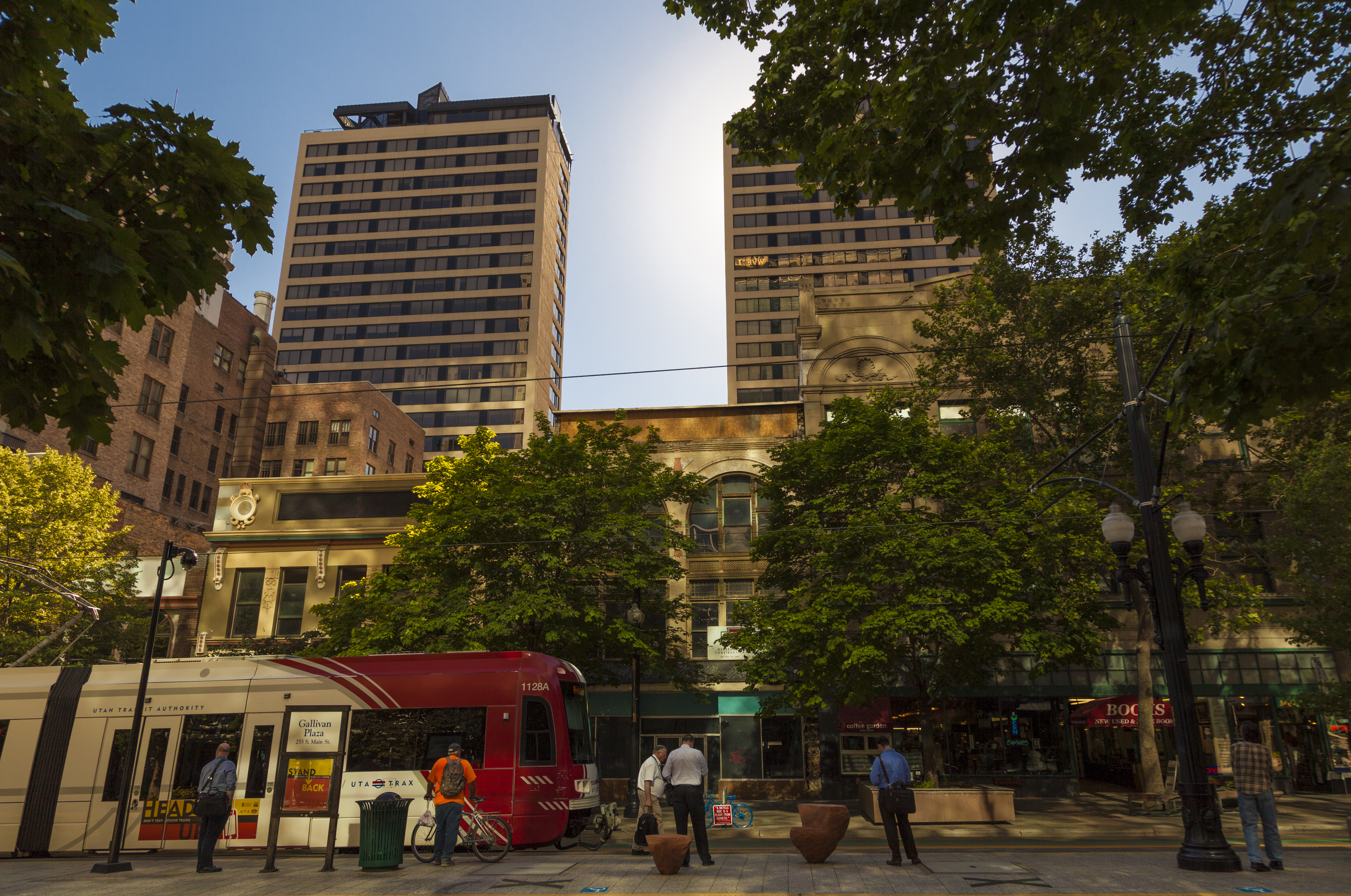 American Tower South and American Tower North in Salt Lake City, Utah, USA.